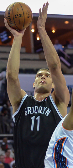 Brooklyn Nets' Brook Lopez is guarded by Charlotte Bobcats' Brendan Haywood.